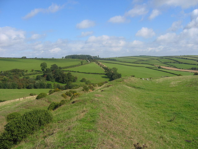 Offa's Dyke. Offa's Dyke on Llanfair Hill looking North. The highest point of the Dyke and it comprises an impressive bank and ditch here although it is being damaged a good deal by badgers